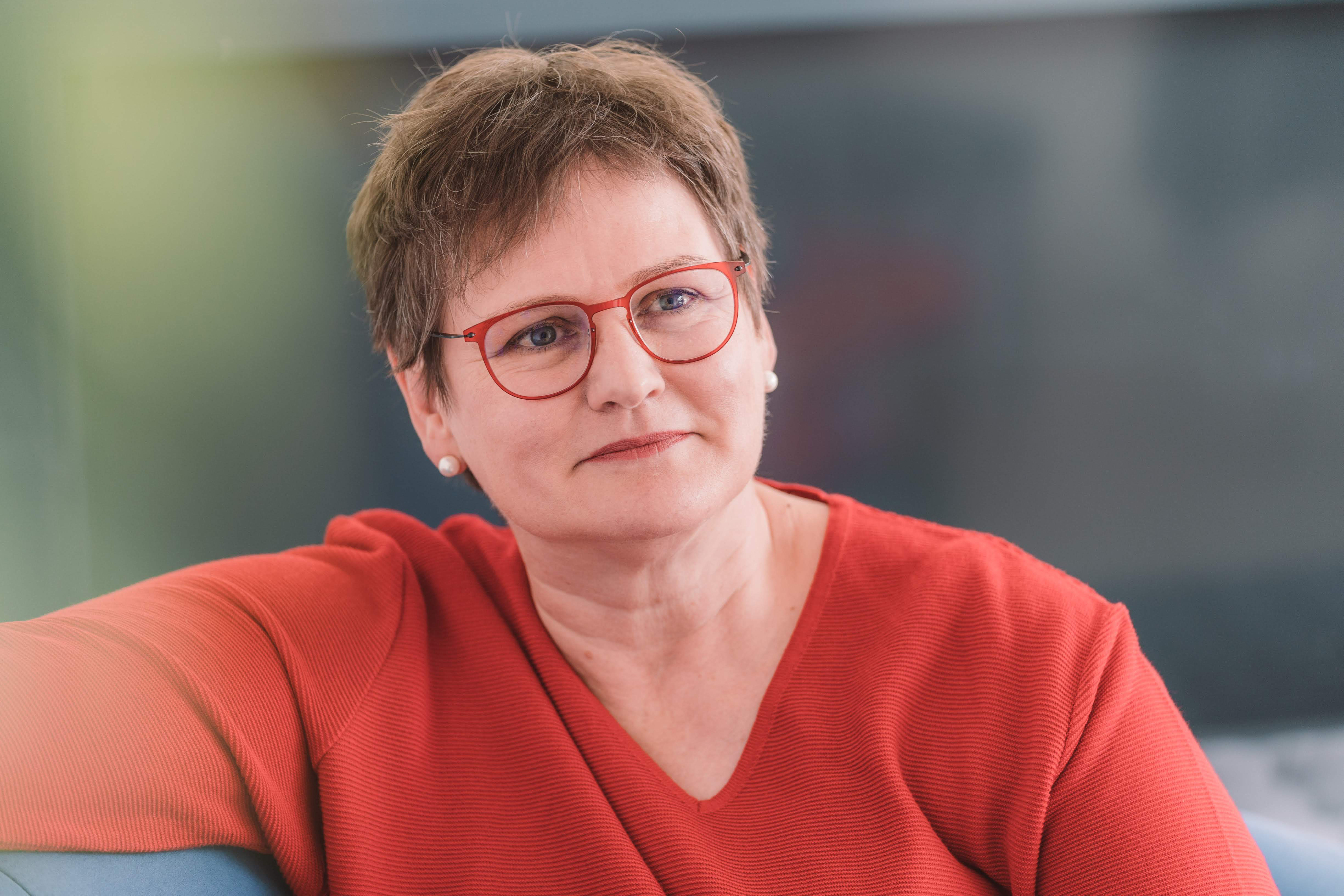 It's a portrait of Leni Breymaier with a red top and glasses sitting on a bench.